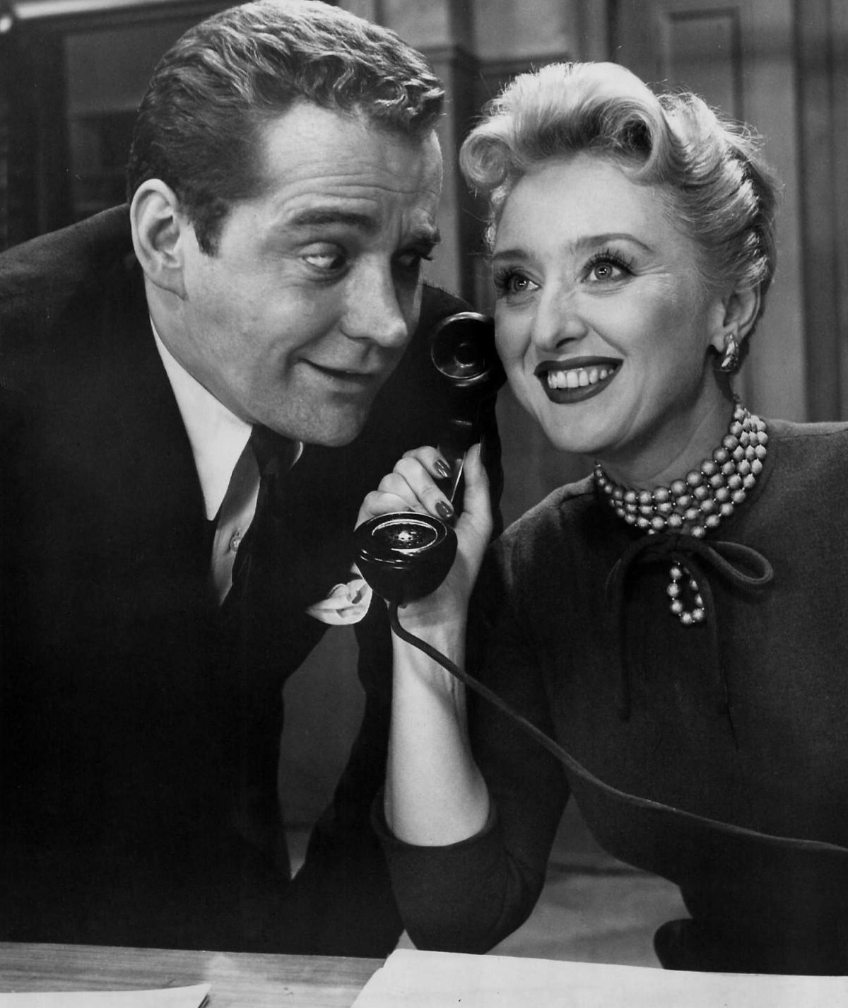 Photo of Scott McKay as Bob Wallace and Celeste Holm as Celeste Anders, from the short lived comedy television program Honestly, Celeste!.